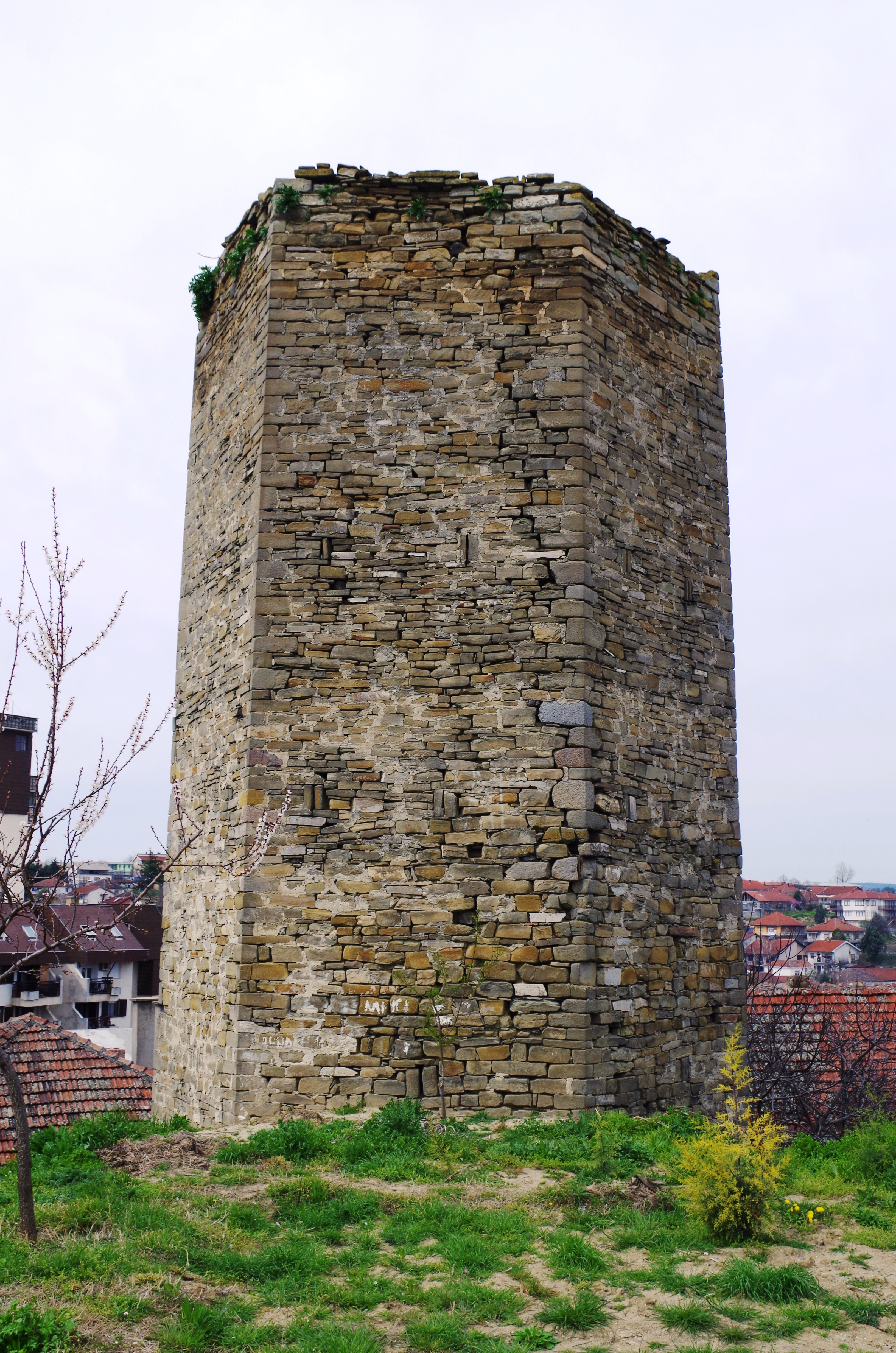 Clock tower in Negotino